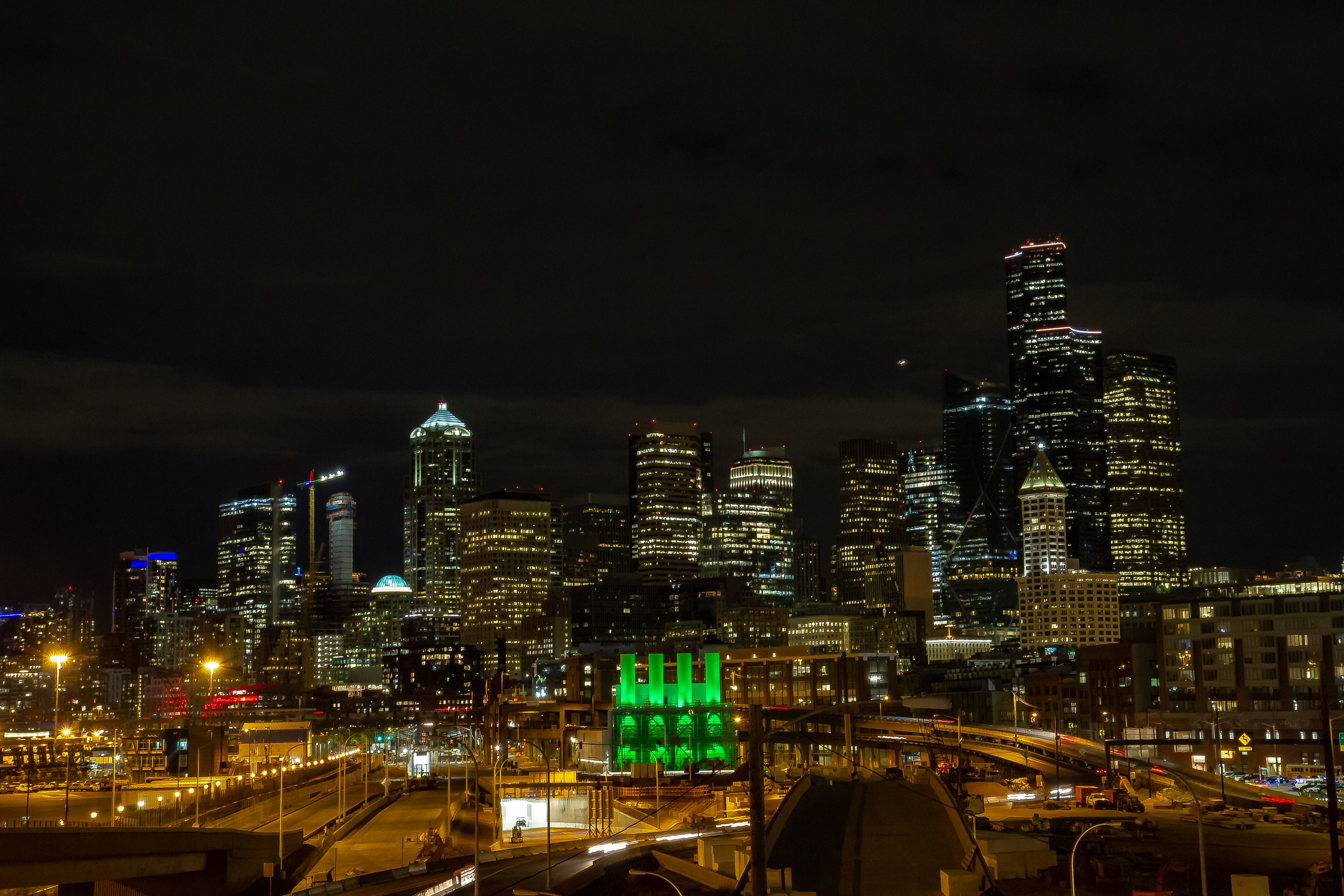 Downtown Seattle at night